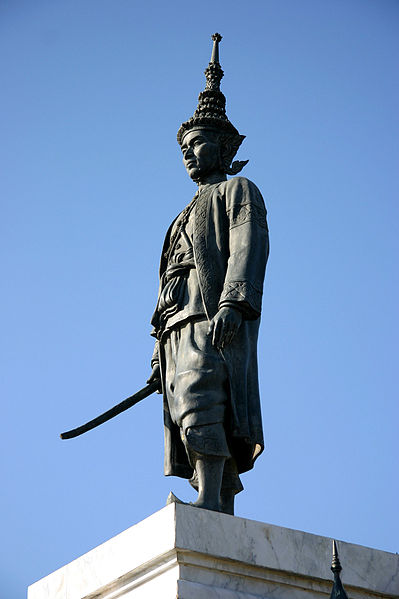 Statue of King Narai the great of Siam.